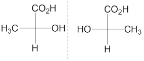 S-(+)-ácido láctico e R-(-)-ácido láctico respectivamente